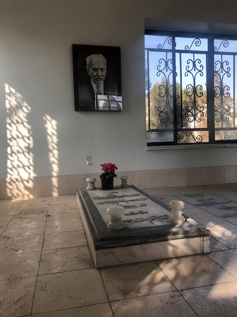 Ibn Babawayh Cemetery